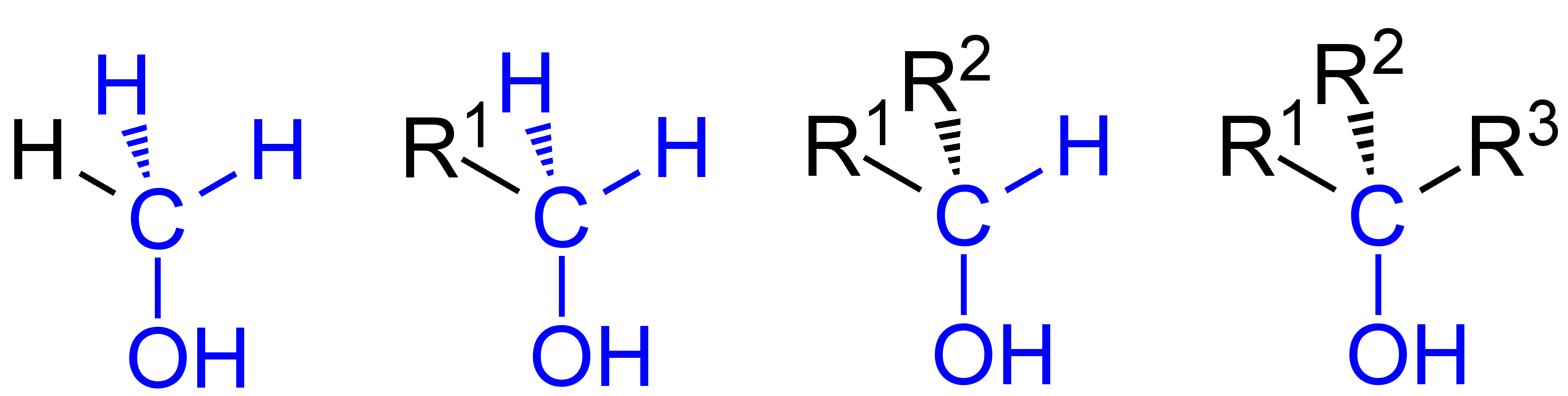 Prim._sec._tert._Alcohols